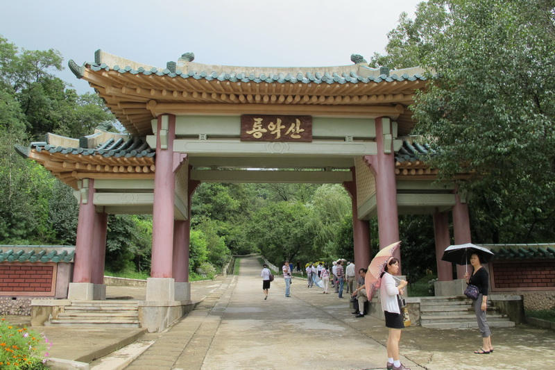 Mount Ryongak, Pyongyang